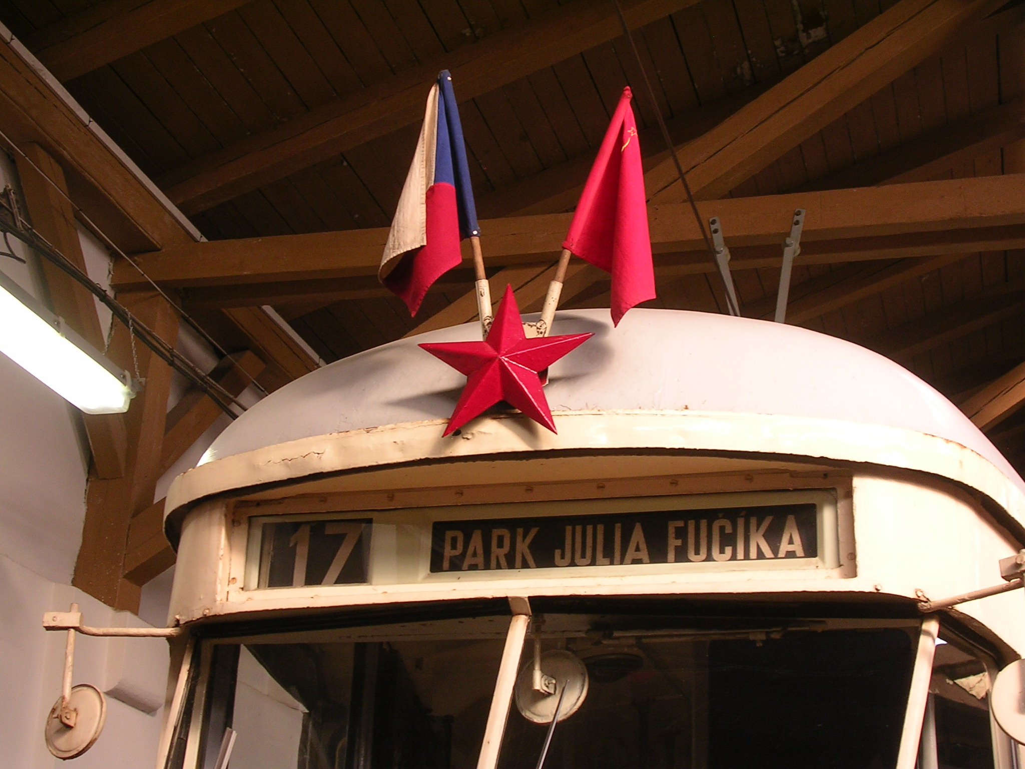 Střešovice, Prague, the Czech Republic. A historical tram Tatra T1.